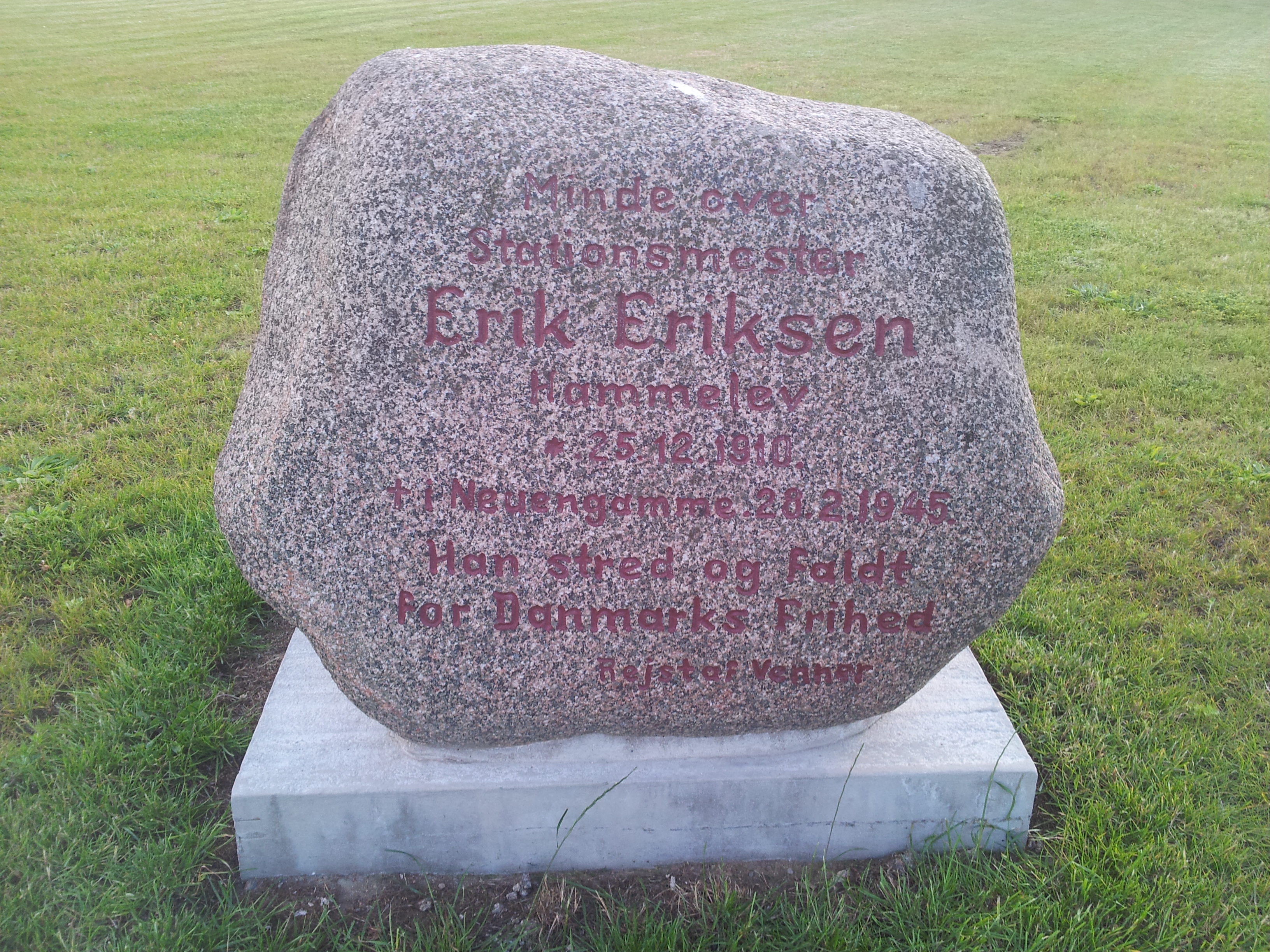 A memorial stone for member the Danish Resistance Erik Eriksen, who died in Neuengamme.